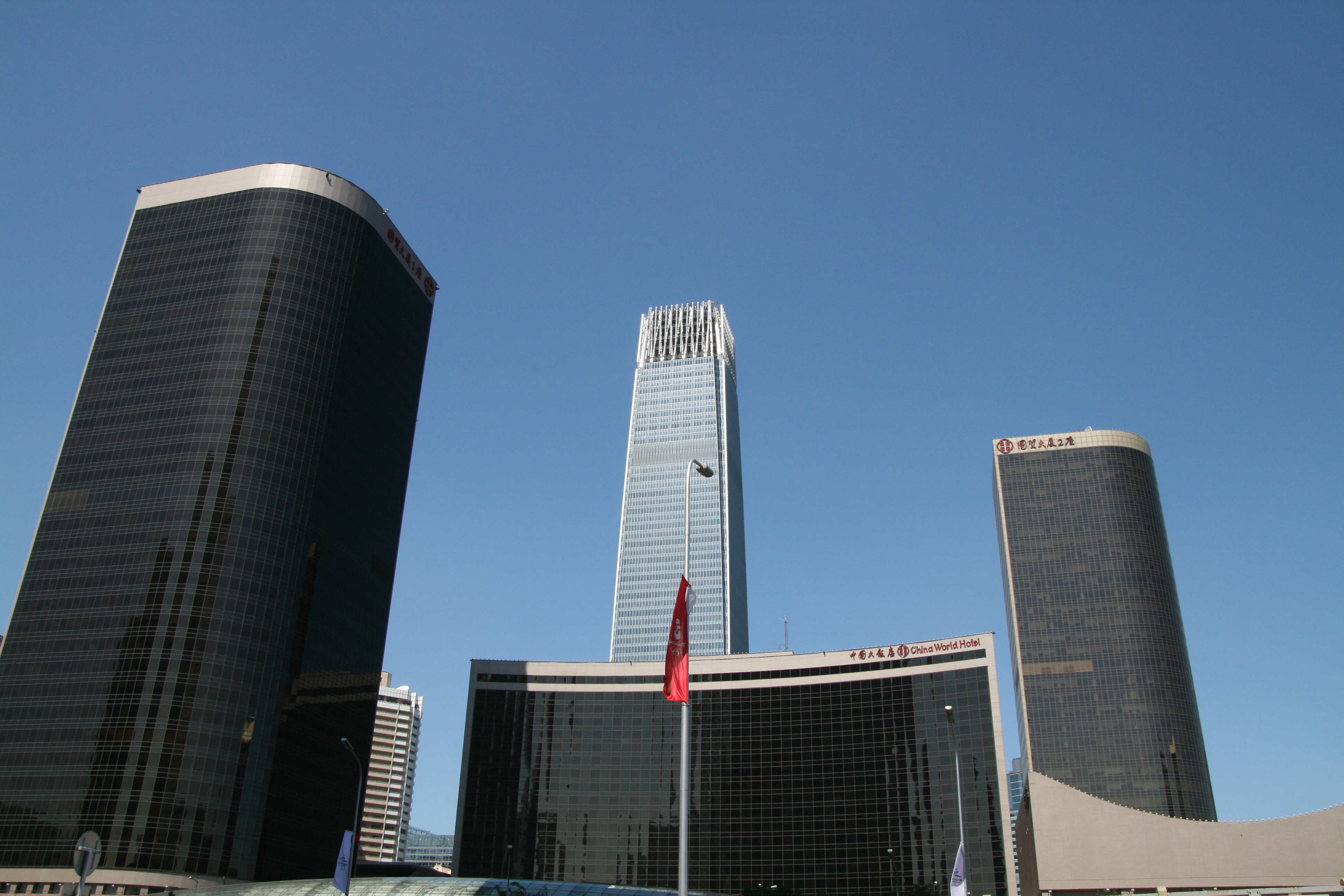 Skyscrapers in Beijing's CBD